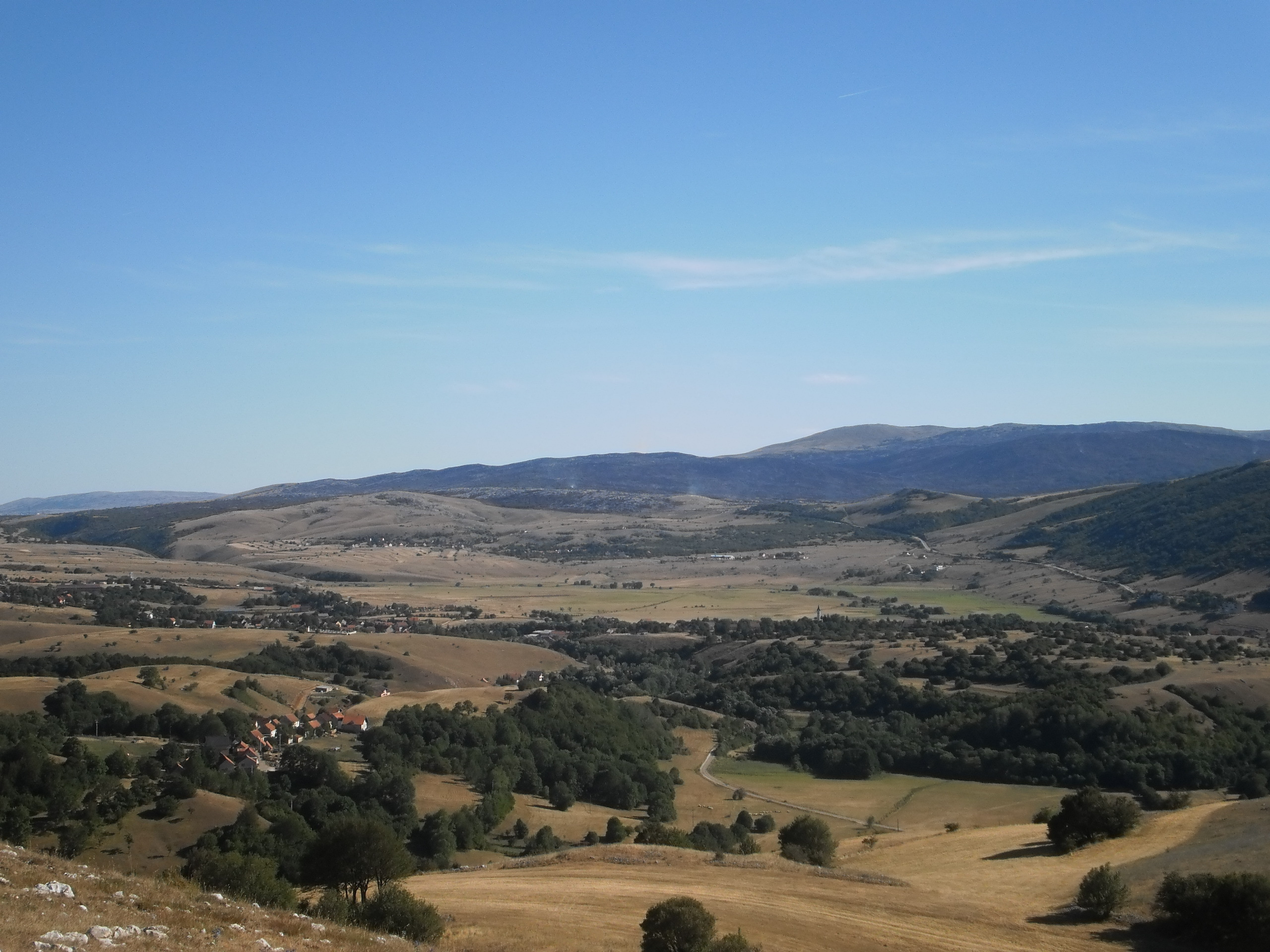 Valley of Šujica River